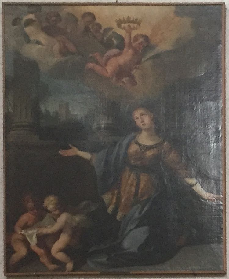 This is one of the paintings which are now in the new church Santa Lucia in Massagno. The painting is from the 17th century.